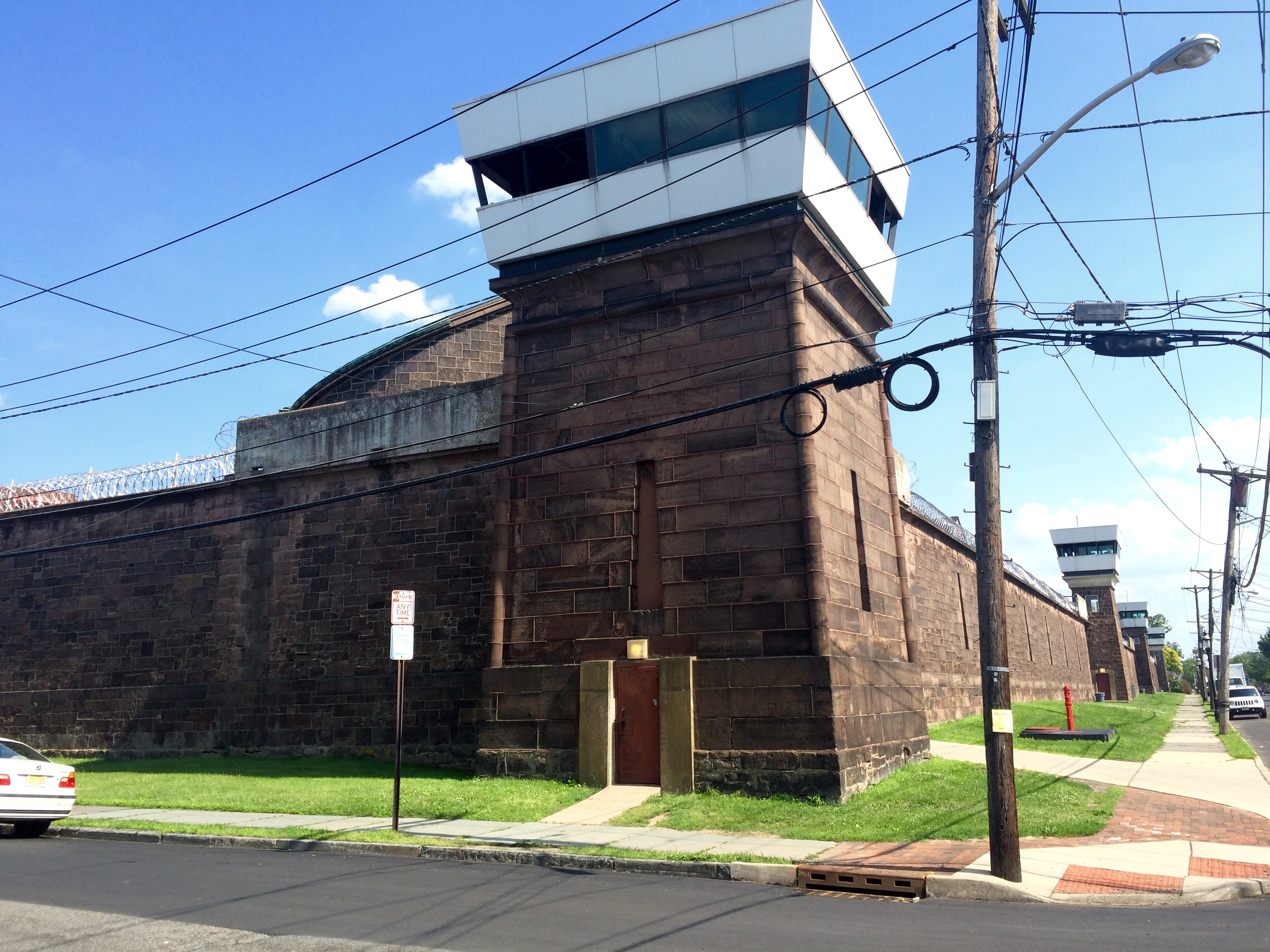 The 1832 "Fortress" portion, with modern towers, of the New Jersey State Prison in Trenton, New Jersey.